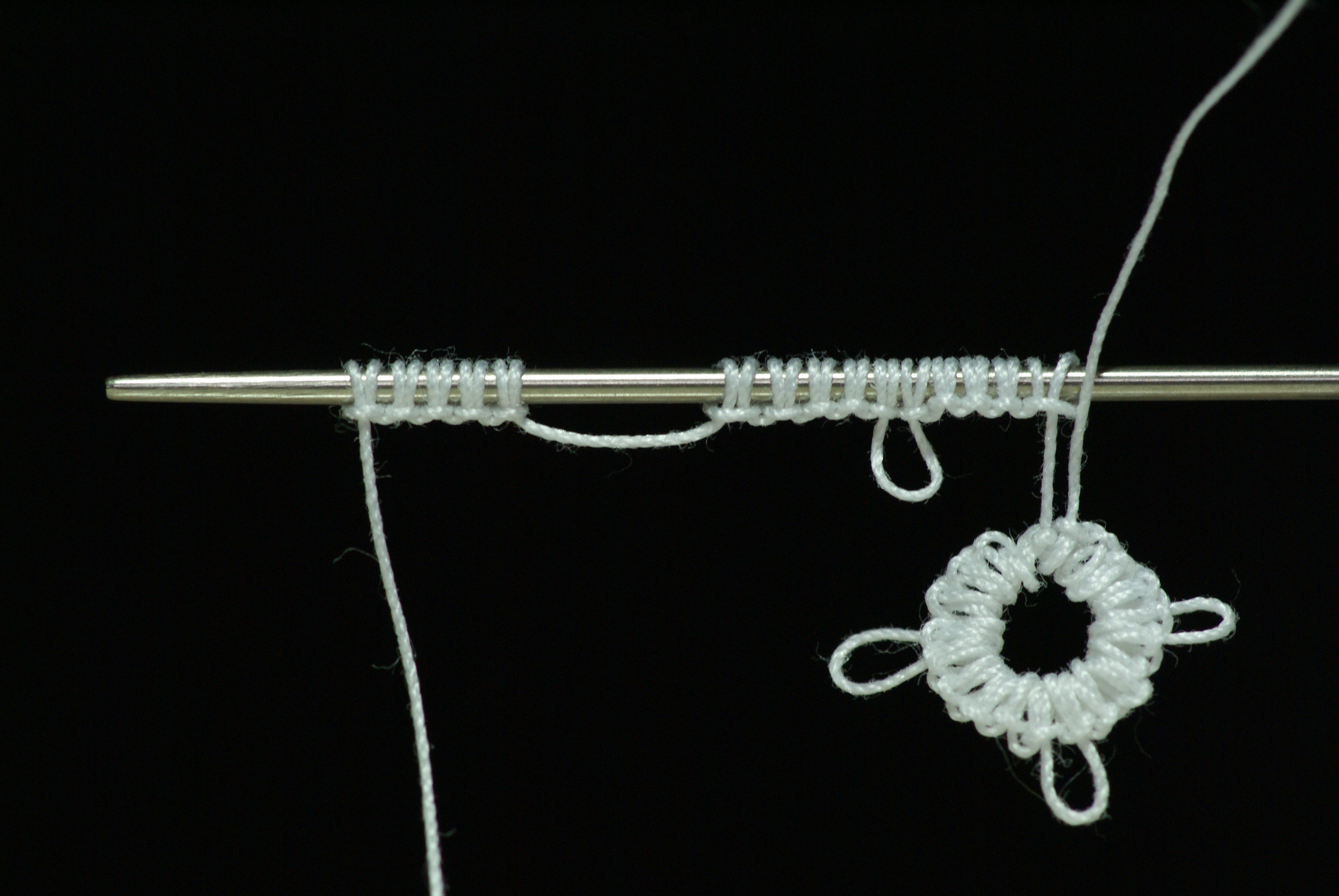 A demonstration of needle tatting, a technique to produce a type of knotted lace. A #5 sized tatting needle is pictured being used with white DMC 80 mercerized cotton tatting thread. The needle is oversized for this thread to enhance the visibility of the knots. One completed closed ring is seen on the right side; composed of 4 segments of 5 double stitch knots separated by a picot. Another partially completed ring is seen still on the needle, where the groupings of 5 knots between picot spaces is clearly visible. Taken with a Sony A100 camera using a Sony 2.8/100 Macro lens. Image has not been edited.